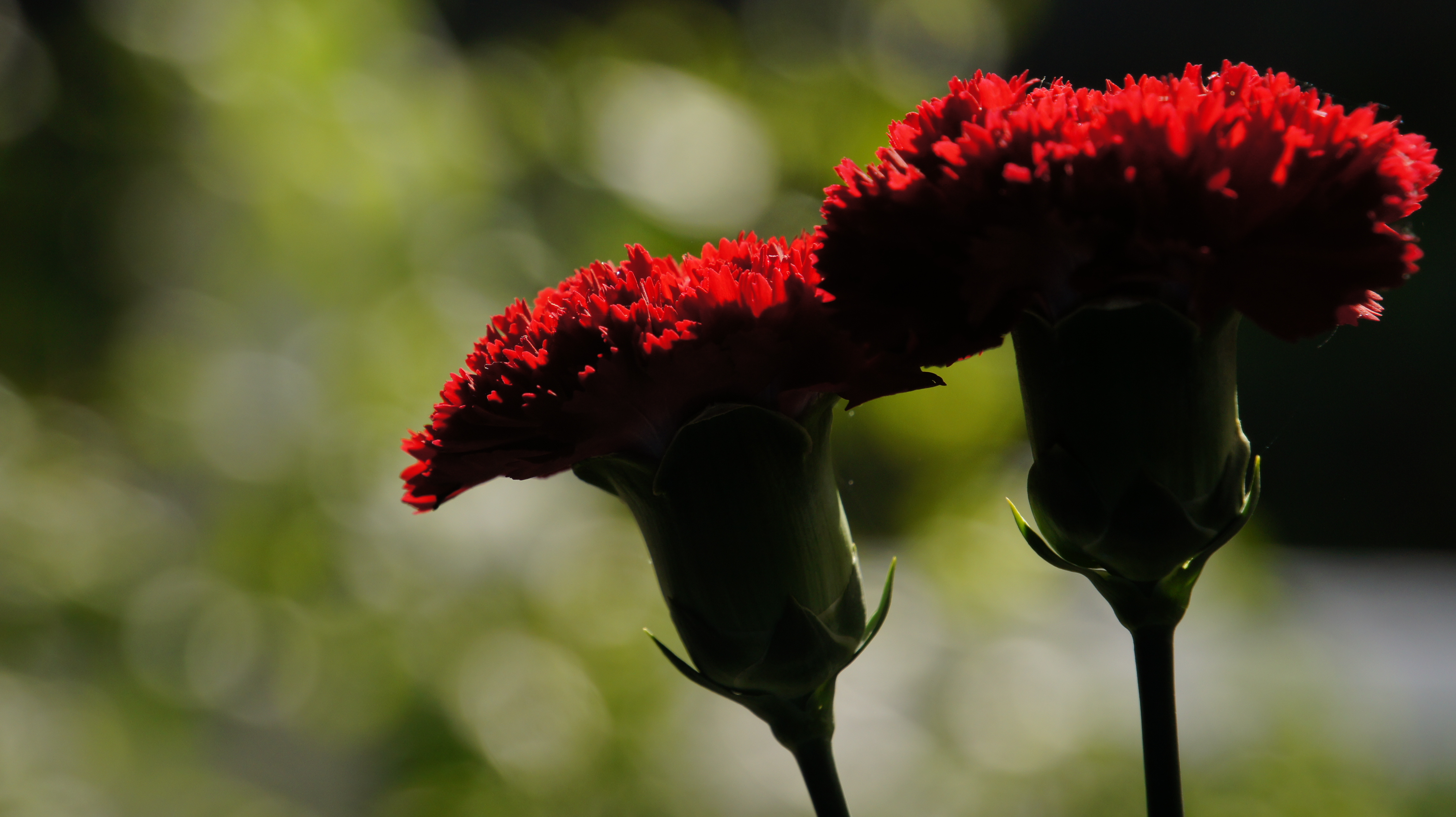 Carnation